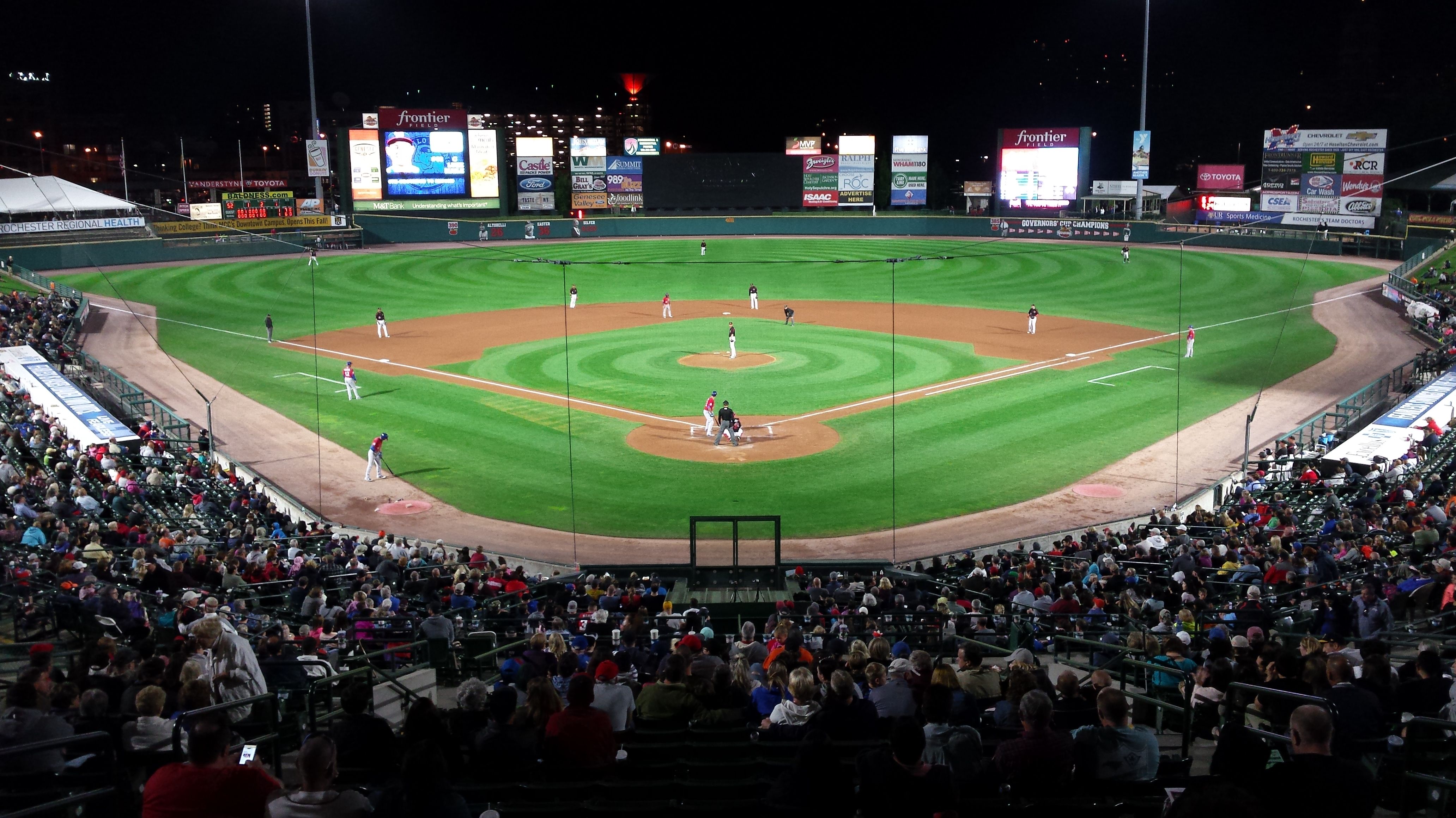 The Rochester Red Wings at bat against the Buffalo Bisons at Frontier Field, August 2017